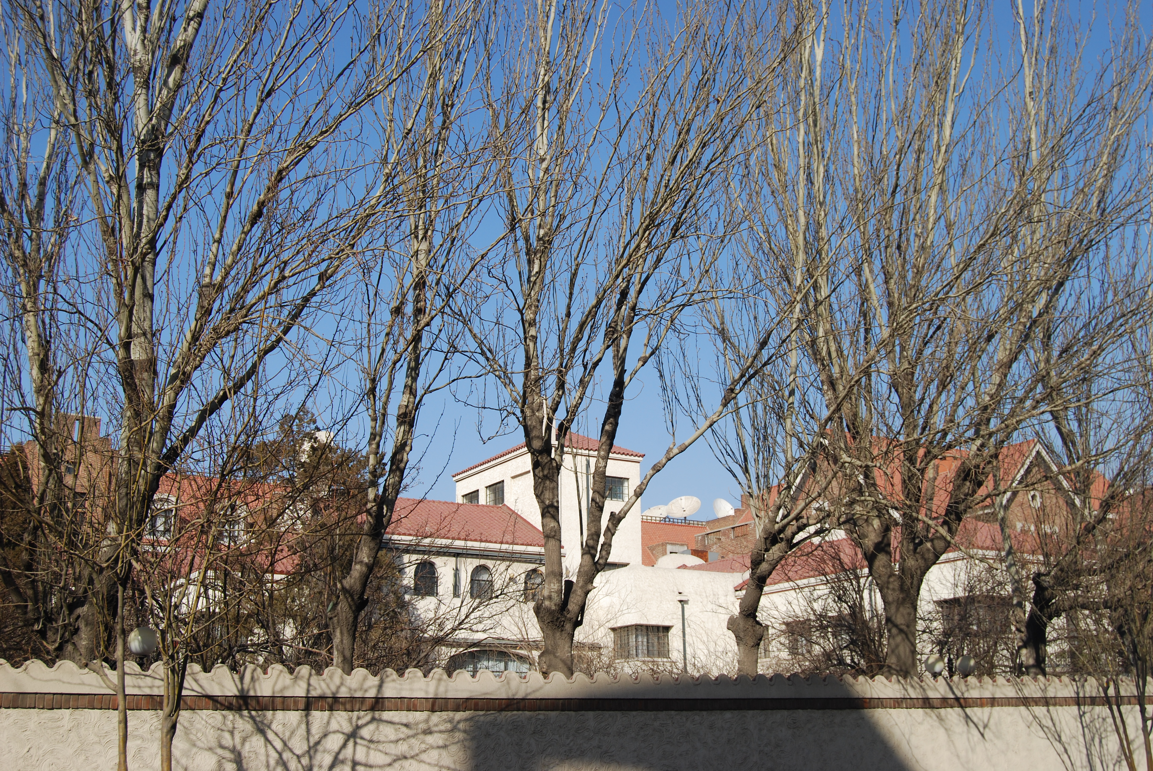 The Former Residence of Mr. Sun in Dali Dao No. 66, Heping District, Tianjin